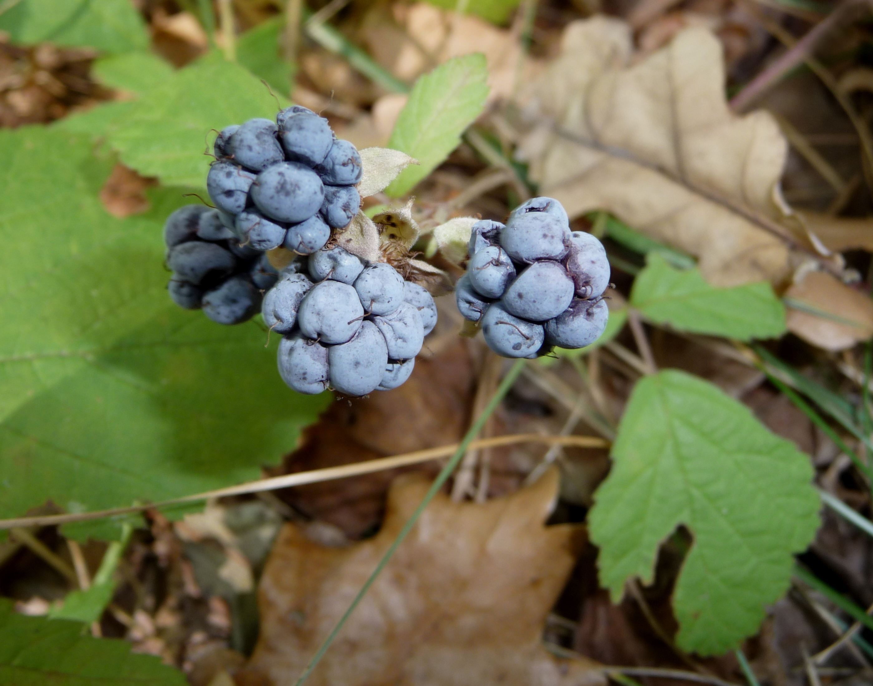 Dewberry (Rubus caesius) in wild. Ripe fruits. Ukraine.